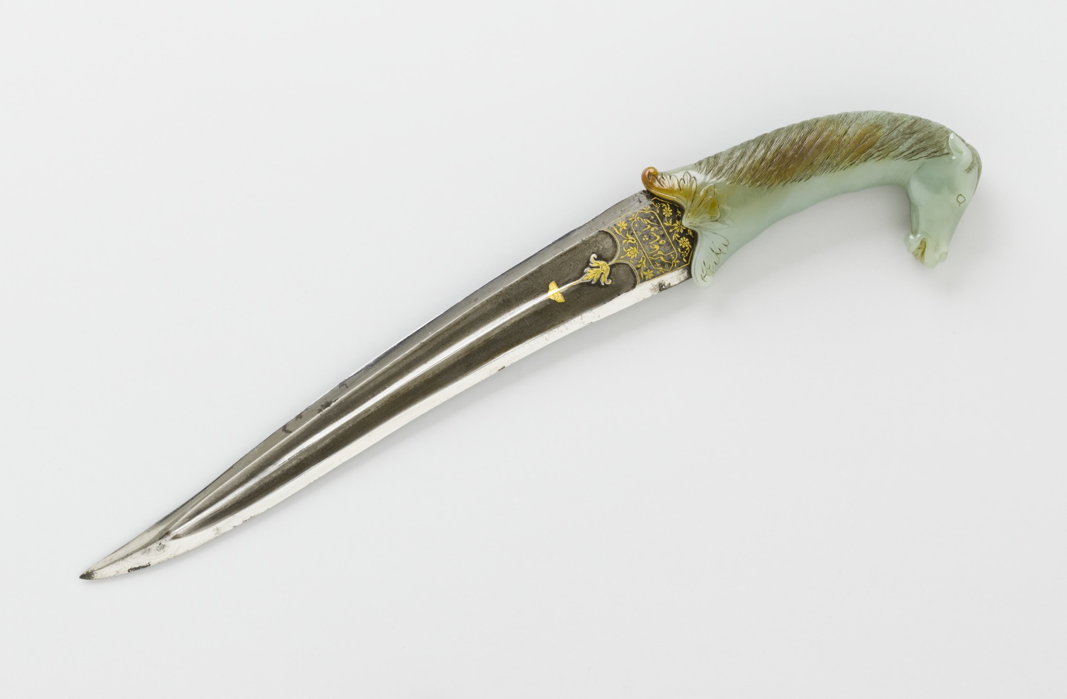 India, Mughal empire, Dated 1660-1661 Arms and Armor; daggers Light green nephrite jade hilt; steel blade inlaid with gold; wood sheath covered in velvet with metallic thread From the Nasli and Alice Heeramaneck Collection, Museum Associates Purchase (M.76.2.7a-b) South and Southeast Asian Art